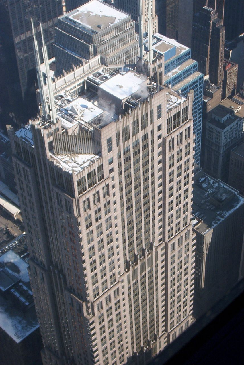 AT&T Corporate Center as seen from the Willis Tower, Chicago, United States.AT&T Building fromt the Willis Tower